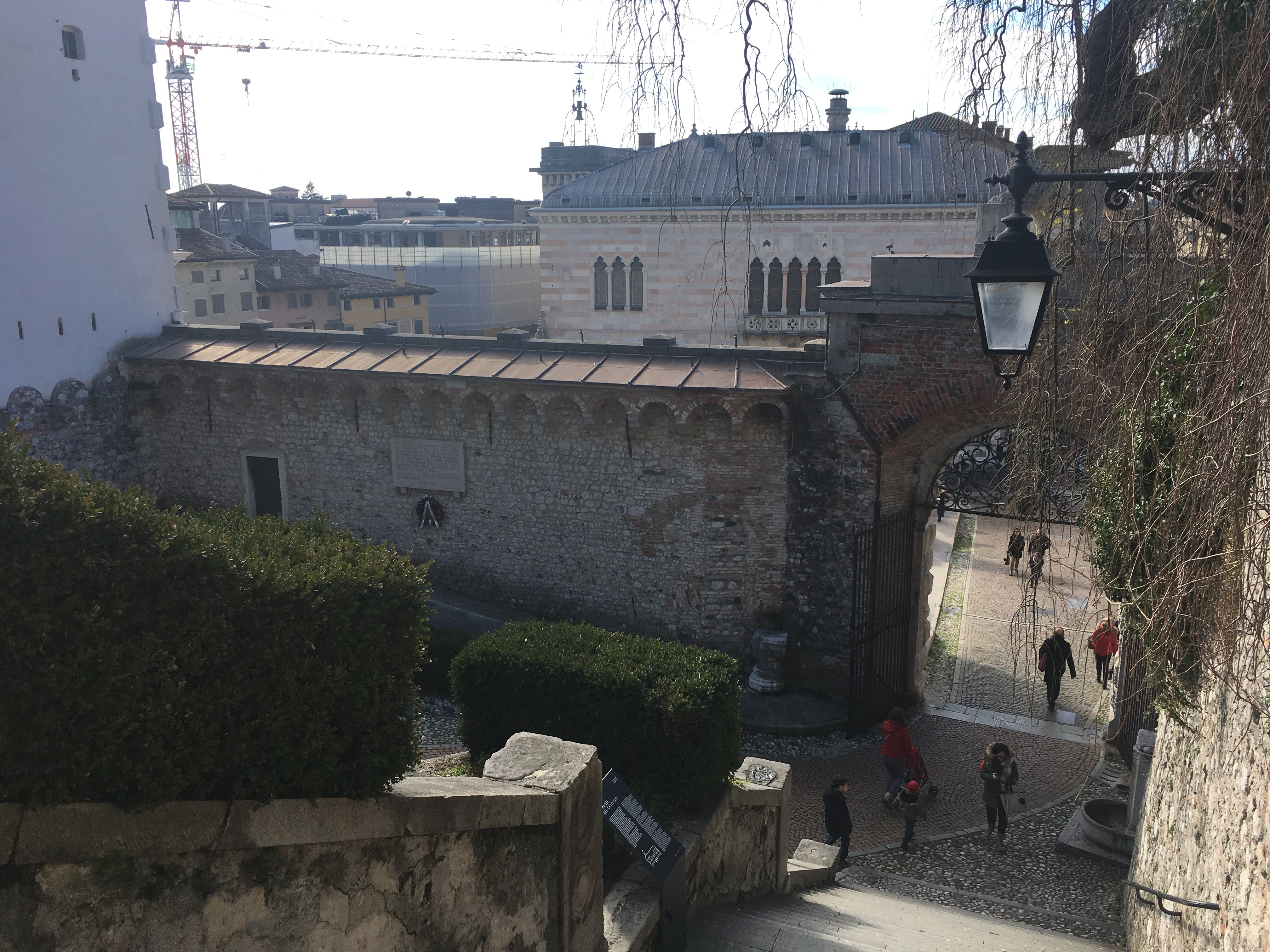 Walls